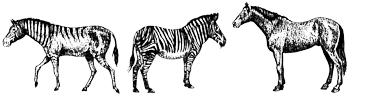 Drawing of Hagerman horse (left) with Grevy's zebra (middle) and Domesticated horse (right)